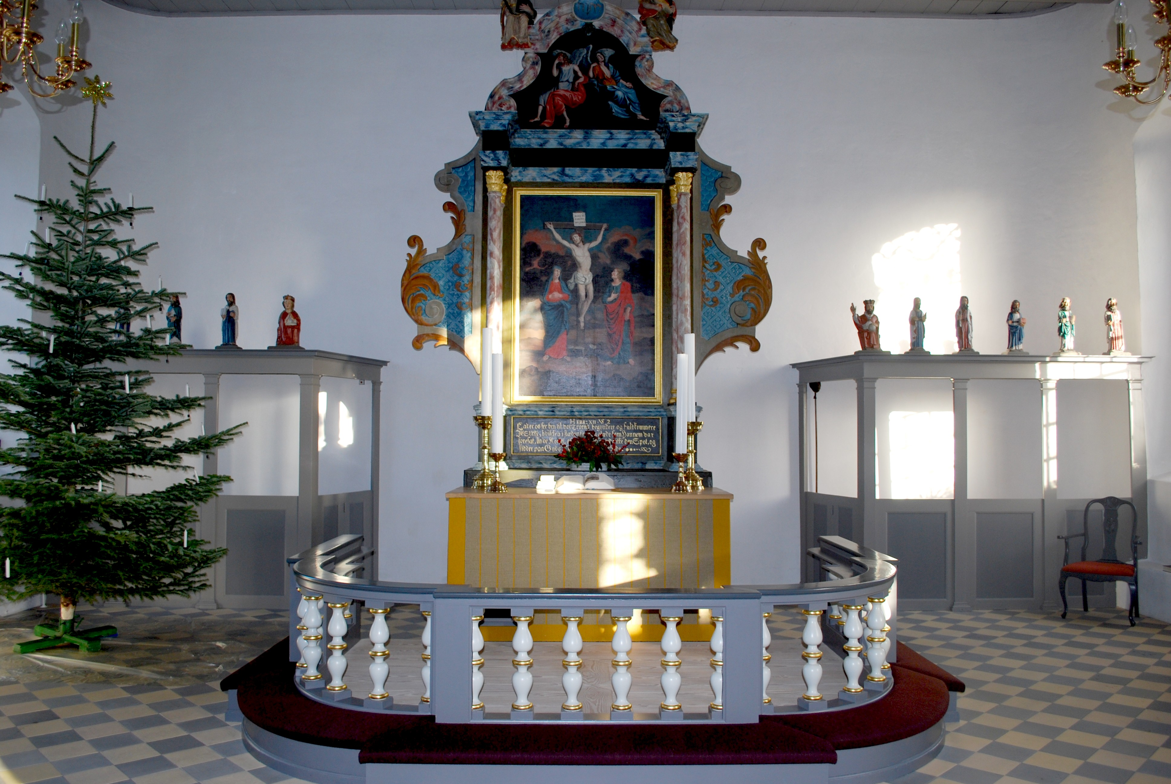 Church of Ketting, Als, Denmark